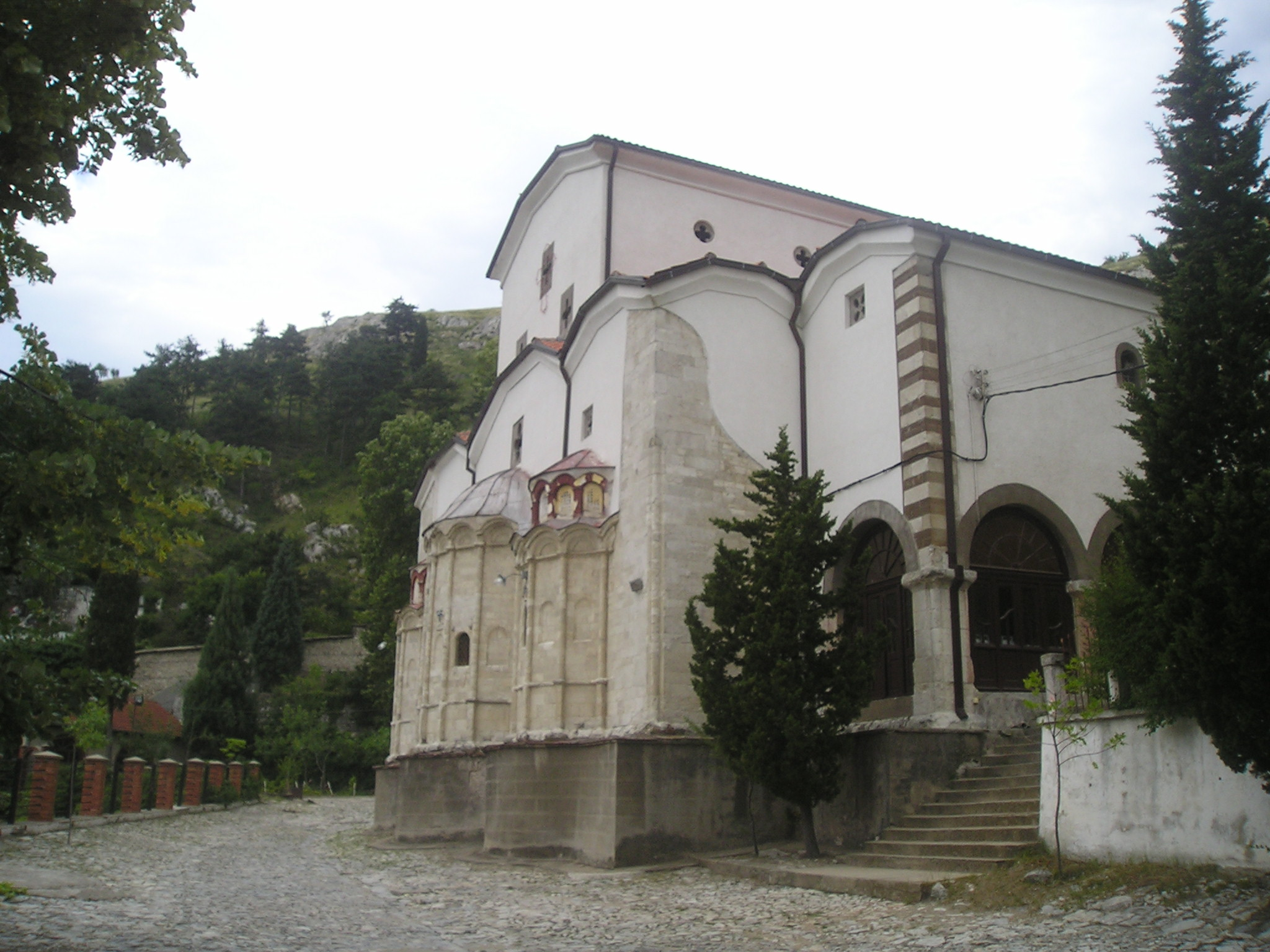 The church Sv.Panteleymon in Veles, Macedonia